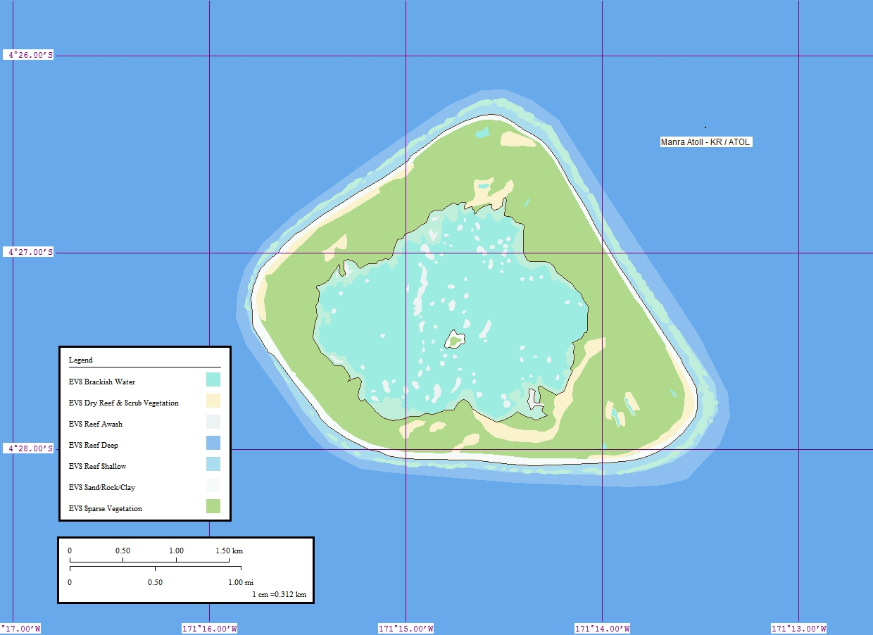 Map of Manra Atoll, Phoenix Islands, Kiribati